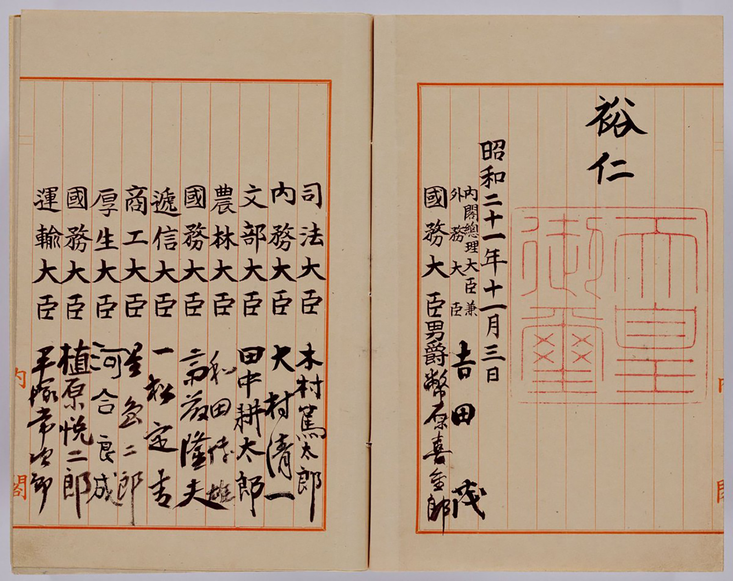 The original of "The Constitution of the State of Japan" This constitution was promulgated in 1946, and it was taken effect in 1947.